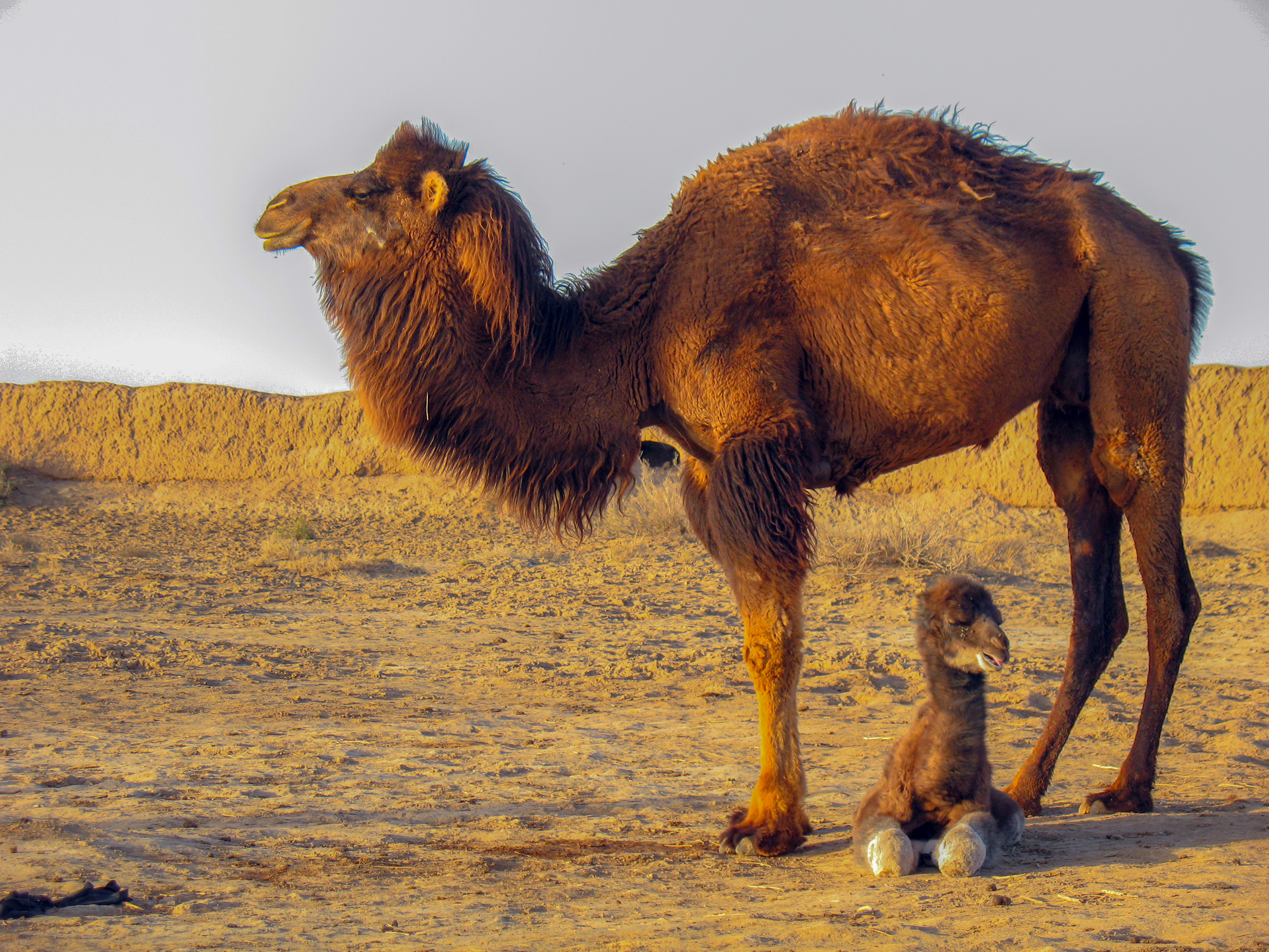 Desert Masileh Qom